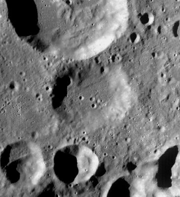 LROC image WAC No. M118470866ME (Husband crater is at centre of image). Calibrated by LROC_WAC_Previewer.